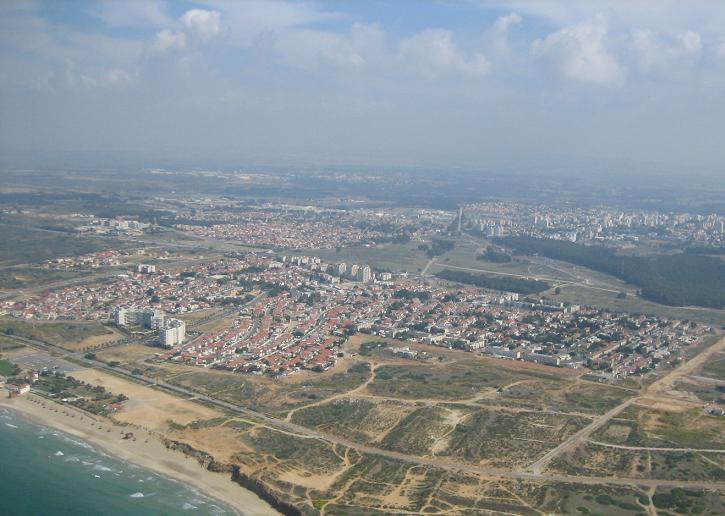 Hadera, Israel